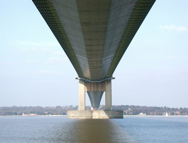 The A15, Barton-upon-Humber, Lincolnshire, England.The underneath of the Humber Bridge roadway, looking north towards the south tower from the high water mark at Barton Waterside.